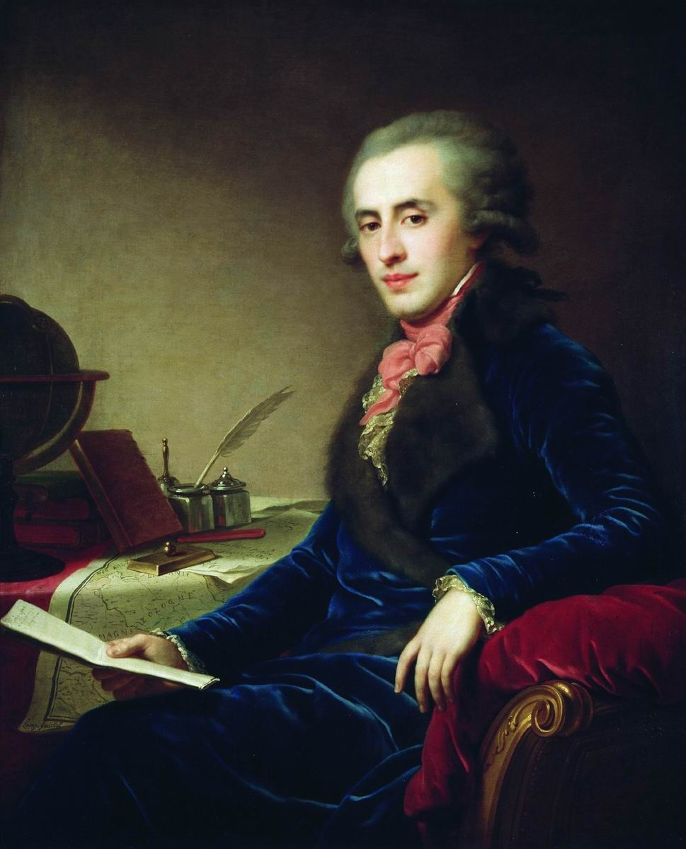 Johann Baptist Lampi the Elder. Portrait of His Senior Highness Prince Zubov (1793).